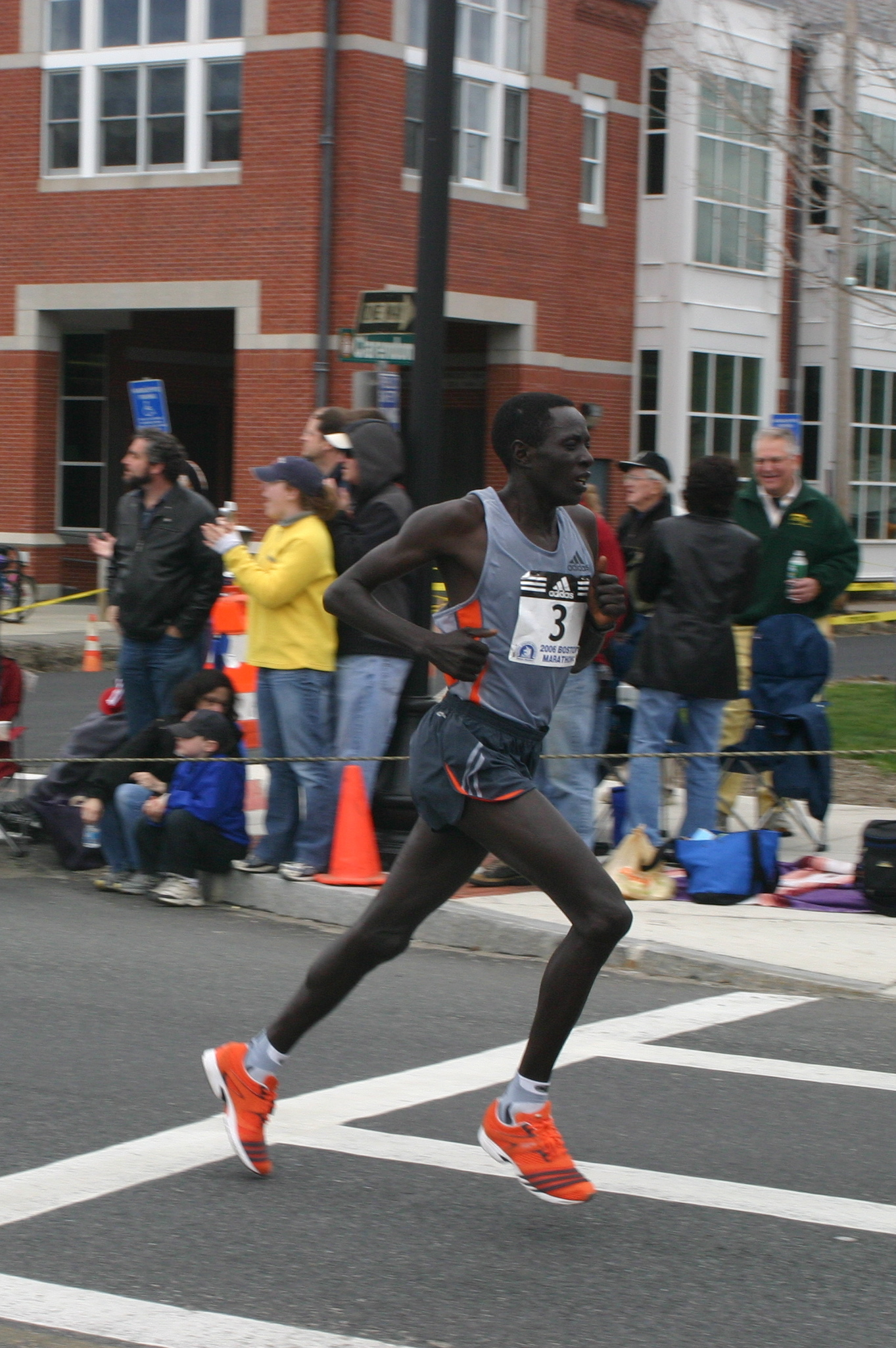 Placed 8th with a time of 2:13:26